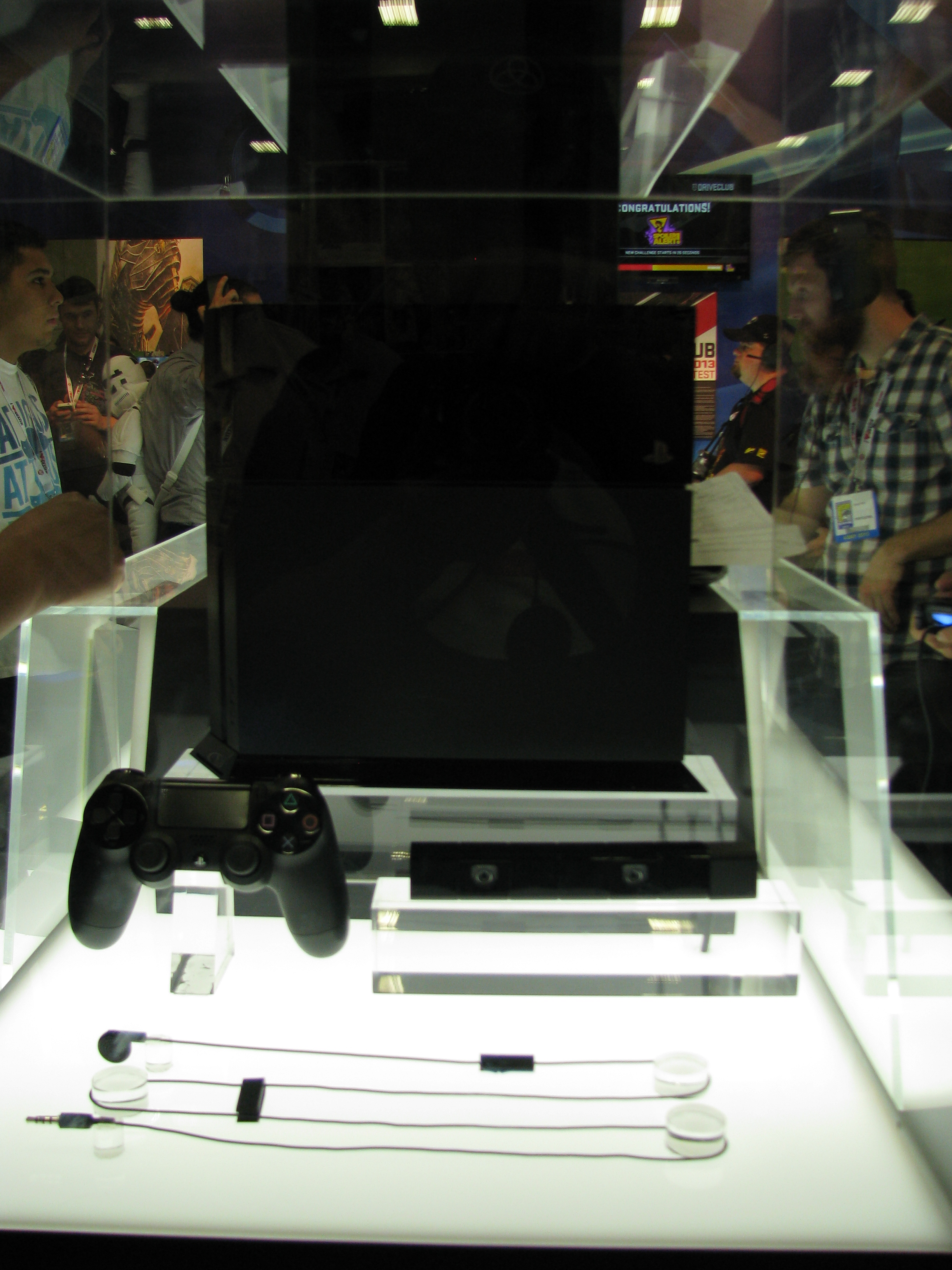 A Playstation 4 on display at the Sony booth.